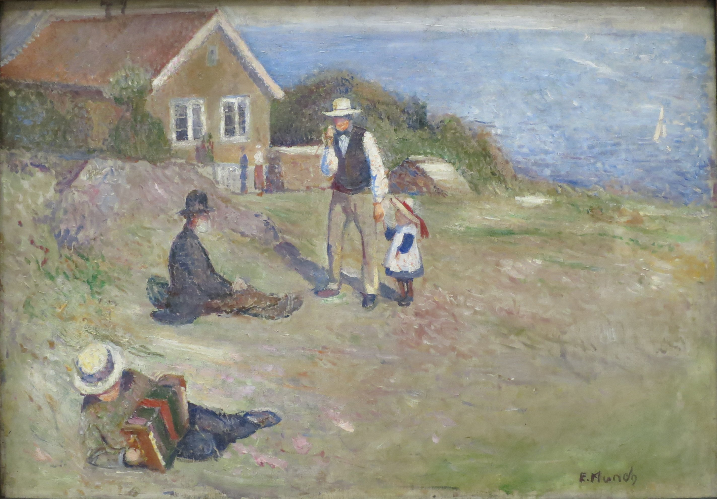 Sunday in Åsgårdstrand by Edvard Munch, 1891, oil on canvas, Bergen Kunstmuseum